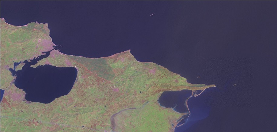 Satellite image of Bizerte, Ras Jebel, Ghar El Melh, islands (Cani, Pilau, Plane) in Northern Tunisia